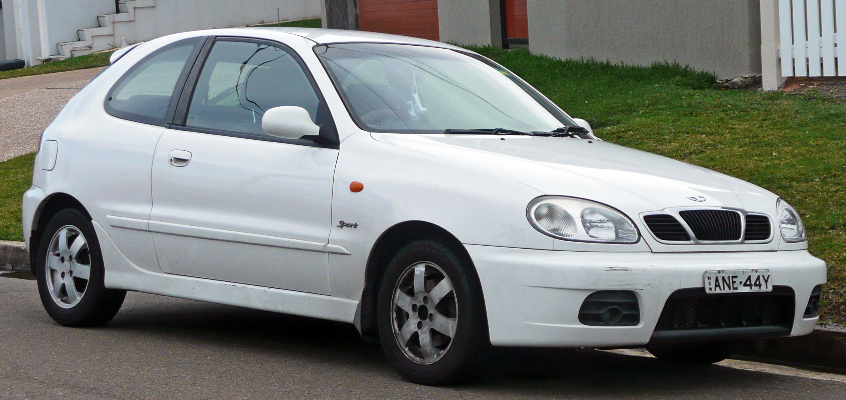 2001 Daewoo Lanos (T150) Sport 3-door hatchback. Photographed in Cronulla, New South Wales, Australia.